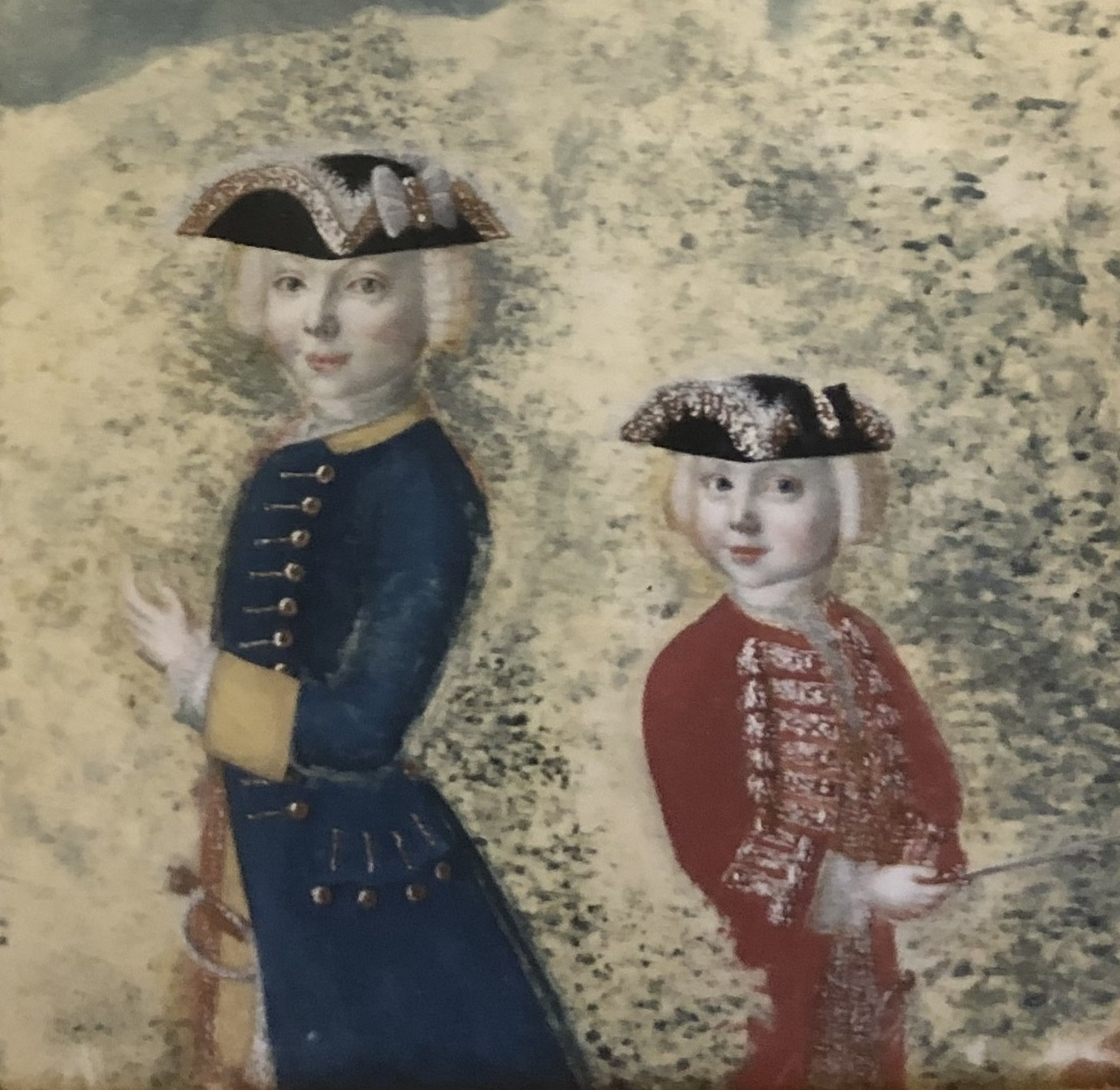 Frederick William von Hessenstein (1735-1808) and brother Carl Edward (1737-1769), sons of King Frederick of Sweden